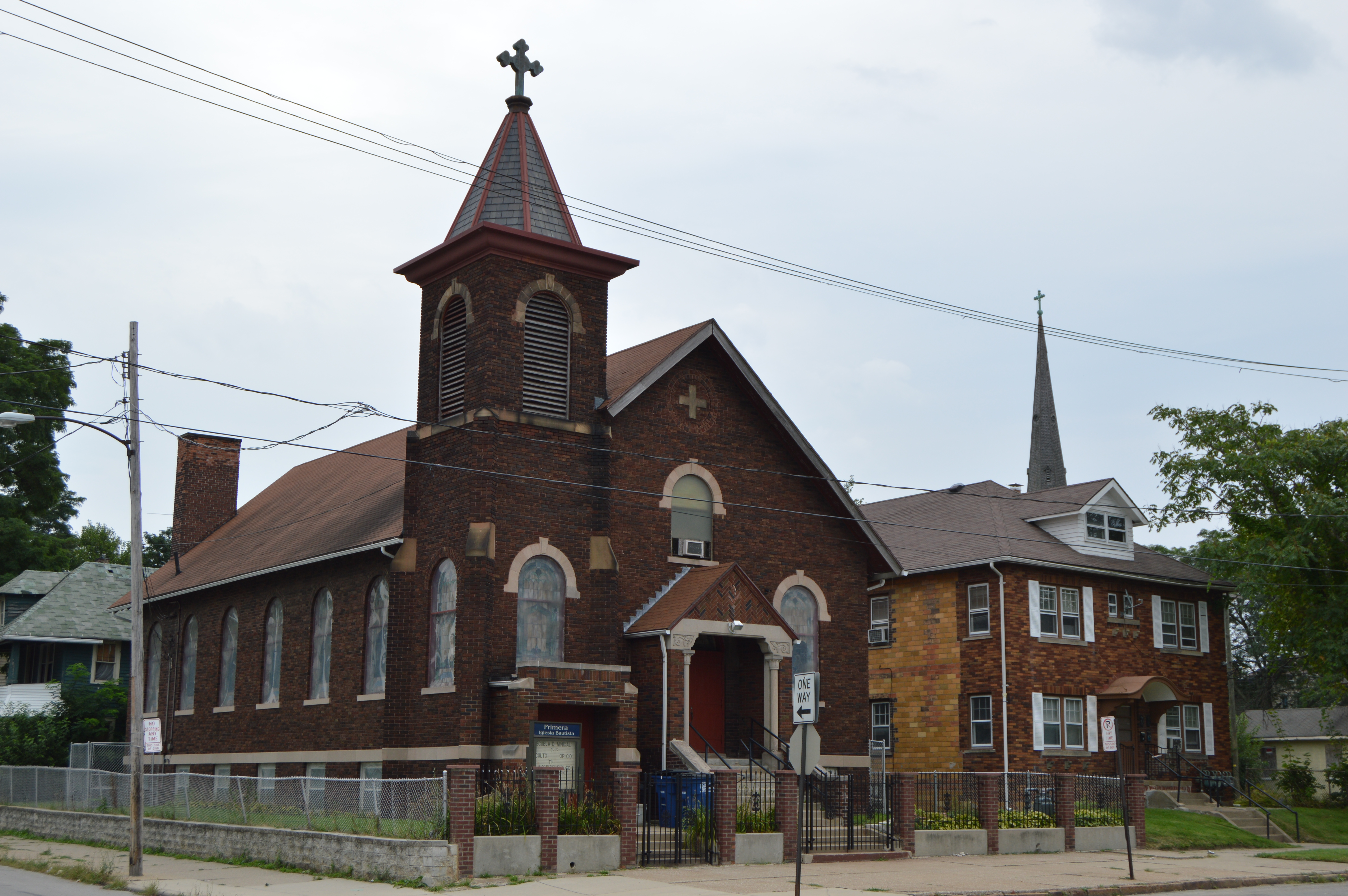 Front of the Primera Iglesia Bautista and an adjacent house, located on the eastern corner of the junction of Erie and Elm Streets in Toledo, Ohio, United States. The tower of Salem Lutheran Church is visible in the distance. This block is part of the Vistula Historic District, a historic district that is listed on the National Register of Historic Places.